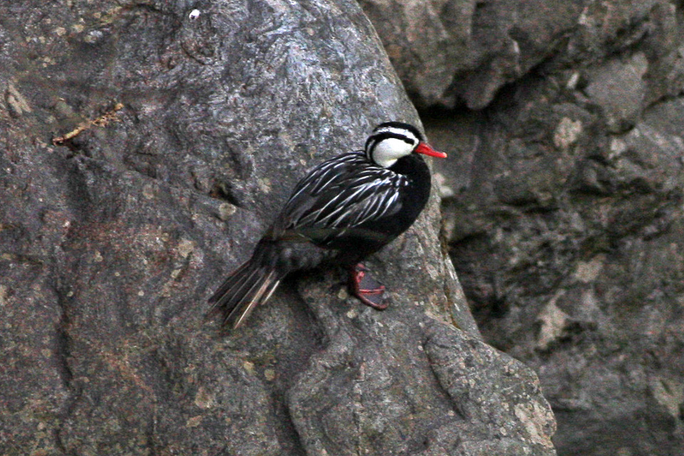 Journey Tucuman to Tafi Valle